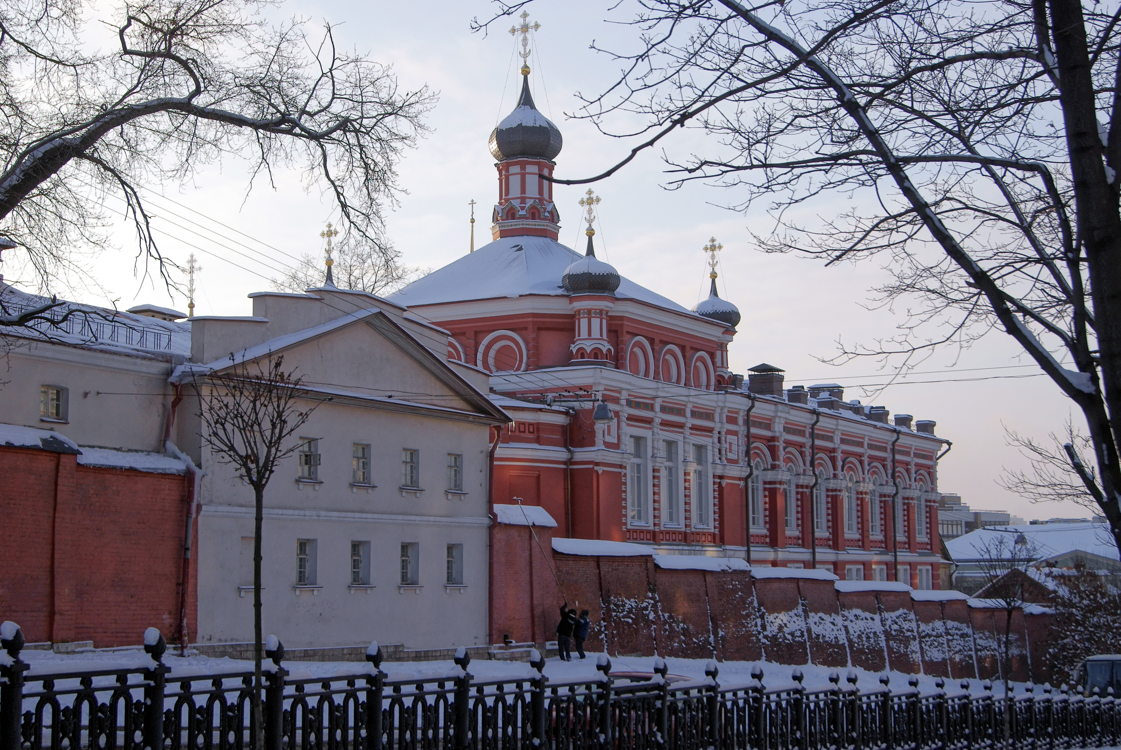 Rozhdestvensky Convent, or the Convent of Nativity of Theotokos is a female cloister in Moscow, Russia, located on the left bank of the Neglinnaya River. Rozhdestvensky Convent was founded in 1386, probably by Maria Konstantinovna, mother of Prince Vladimir Andreyevich the Bold of Serpukhov. According to some accounts, the convent used to be located in the Moscow Kremlin until 1484. Rozhdestvensky Convent was severely damaged by fire in 1500 and 1547. In 1525, Solomonia Saburova, the first wife of Grand Prince Vasili III, was forced to take the veil under the name of Sophia.